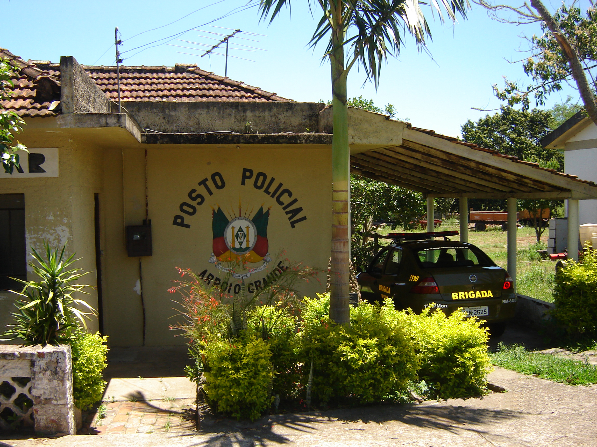 Police of Arroio Grande - Santa Maria - Rio Grande do Sul - Brazil